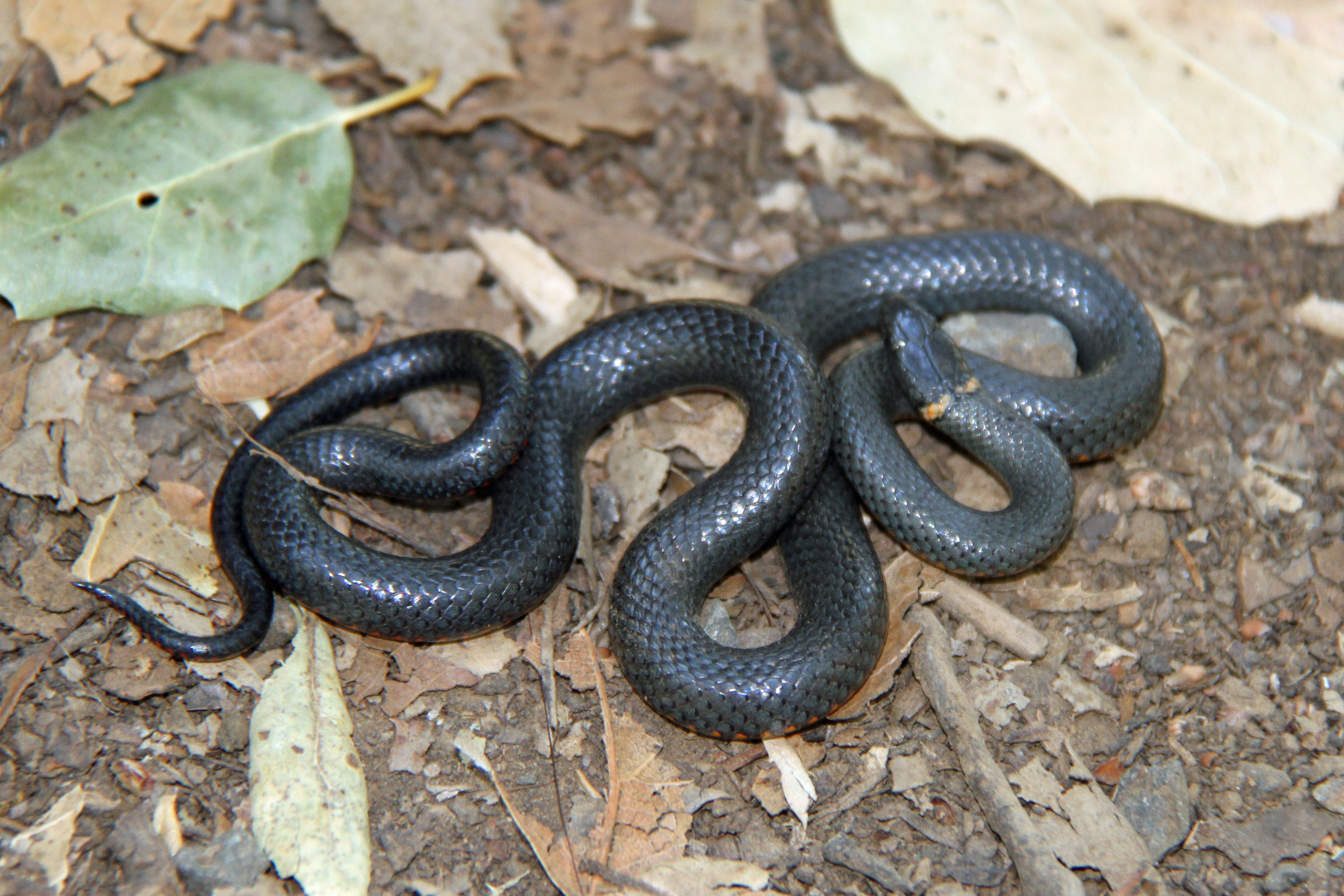 Ring-necked Snake (Diadophis punctatus amabilis)